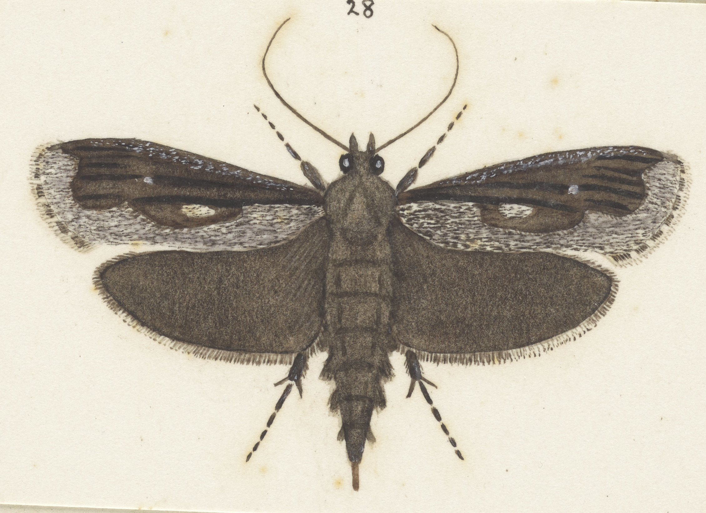 Watercolour by George Hudson. Plate XXV. The butterflies and moths of New Zealand. Fig 28. Titanomis sisyrota